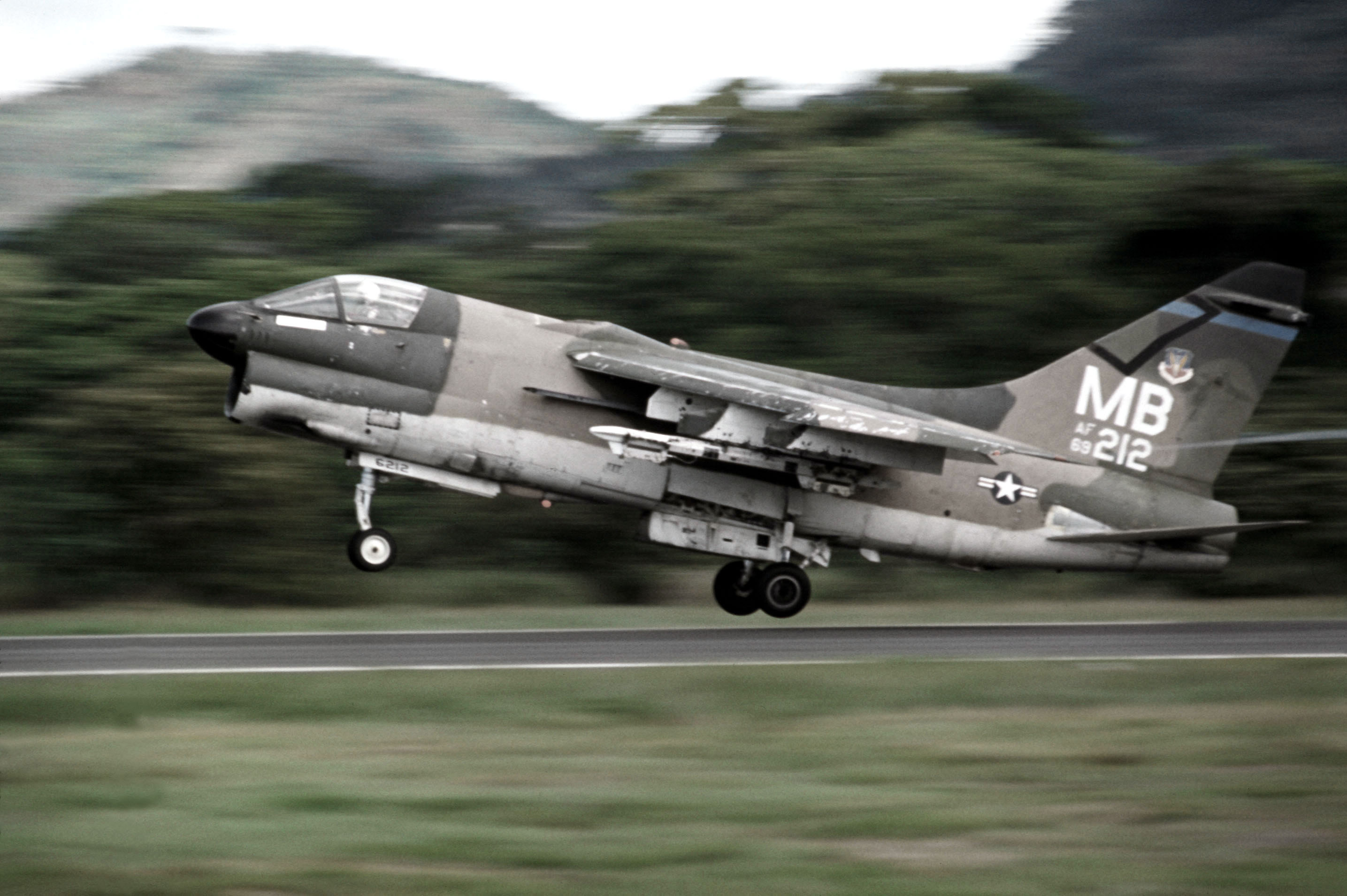 An A-7D Corsair II aircraft takes off from Howard Air Froce Base to provide close air support for troops participating in an Army training and evaluation program (ARTEP). 1971: Delivered to 355th Tactical Fighter Wing/333d TFS, Davis-Monthan AFB, AZ (c/n D-042) Transferred to 354th Tactical Fighter Wing/355th TFS, Myrtle Beach AFB, SC, 1972 Transferred to 124th Tactical Fighter Squadron, IA Air National Guard, 1977 Transferred to 166th Tactical Fighter Squadron, OH Air National Guard, 1985 Transferred to AMARC as AE0162 Jun 24, 1992. Disposition:24-APR-98 / To Fritz Enterprises, Taylor, MI. (Actually to HVF West yard, Tucson). Scrapped.